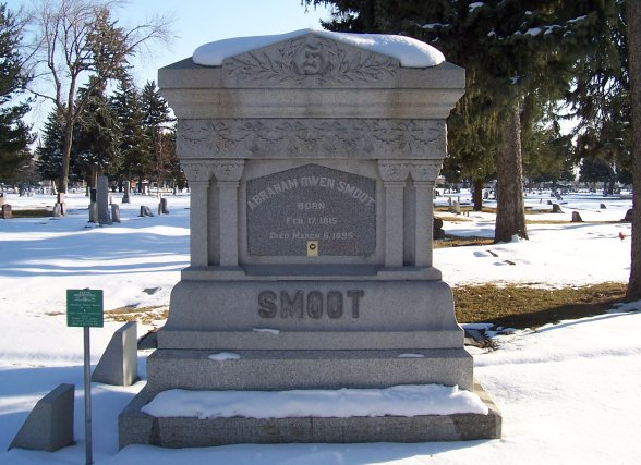 Grave market of Abraham Owen Smoot, located in the Provo City Cemetery.